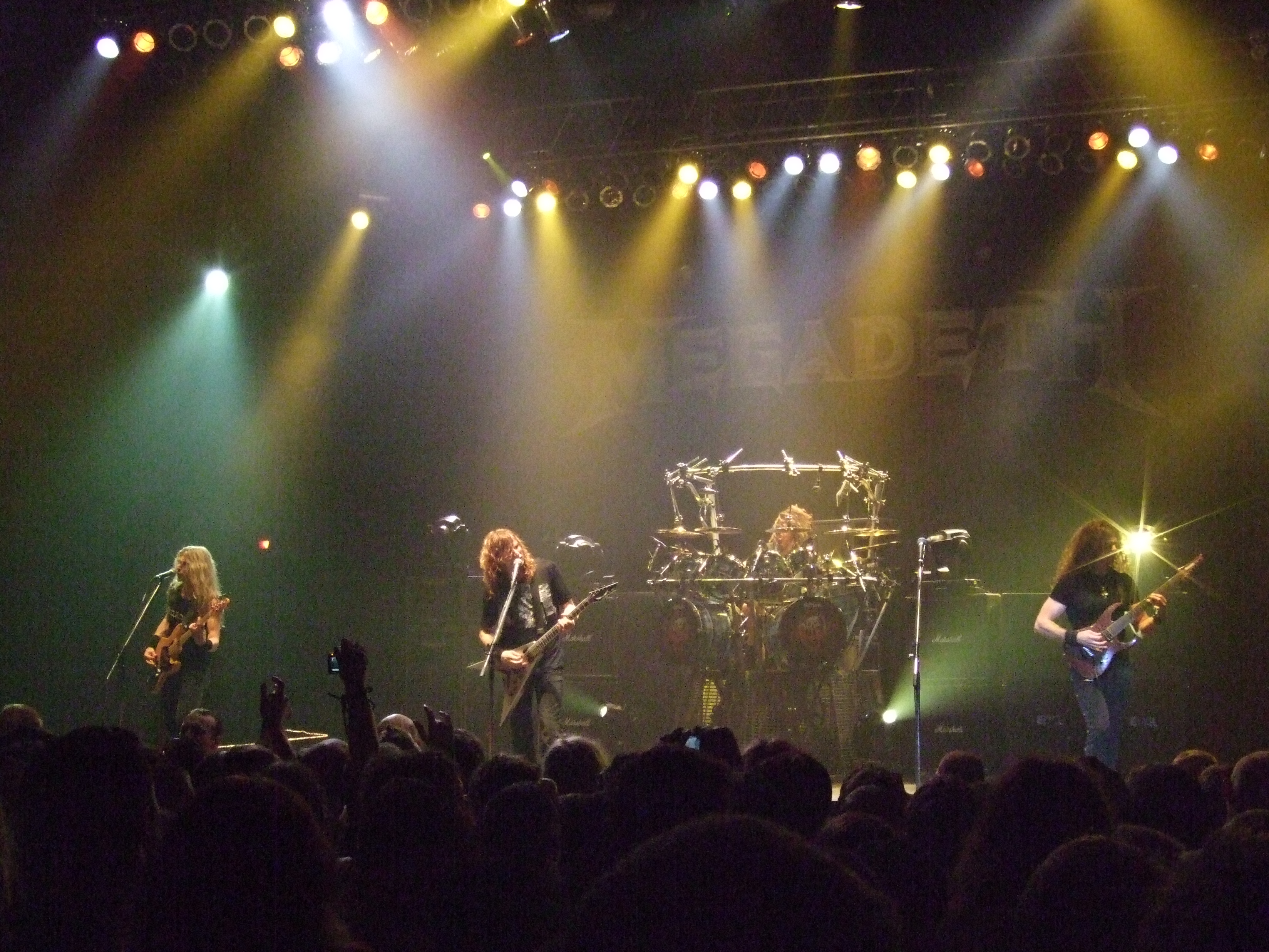 Megadeth playing live at Carling Academy Brixton on Sunday 24 February 2008